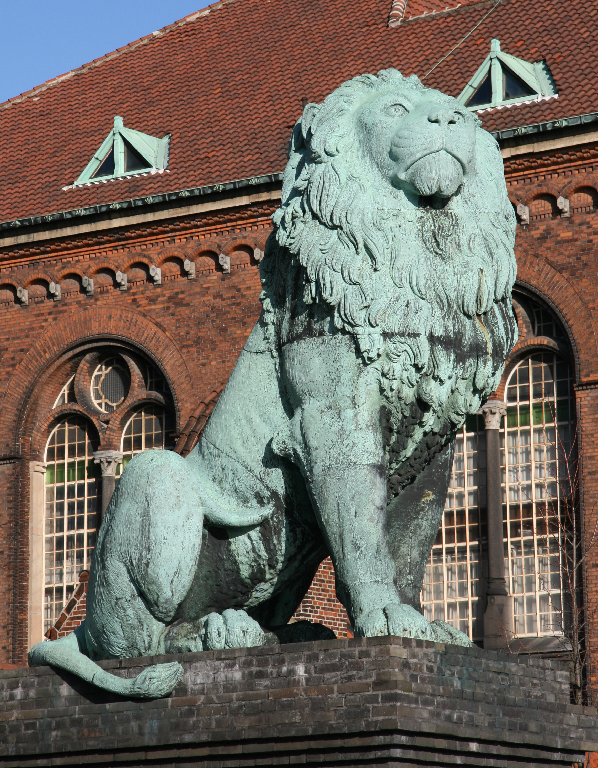 Istedløven (The Isted lion), a lion statue by Herman Wilhelm Bissen, which is a memorial of the battle of Isted (german: Idstedt). Sign reads: "Isted den 20. Juli 1850". First erected in 1862 in Flensburg, Germany, brought to Berlin in 1864 and since 1945 in Copenhagen. Close-up.